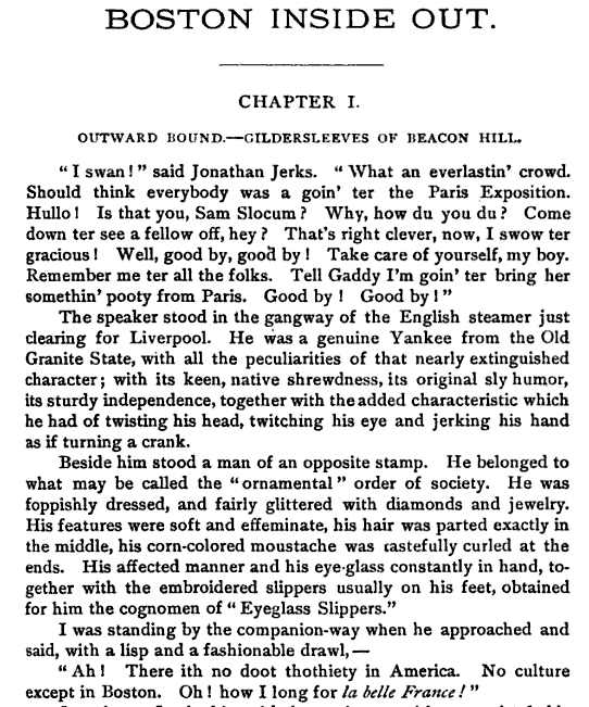 From: Henry Morgan. Boston inside out: a story of real life. Boston: American Citizen Co., 7 Bromfield St., 1894